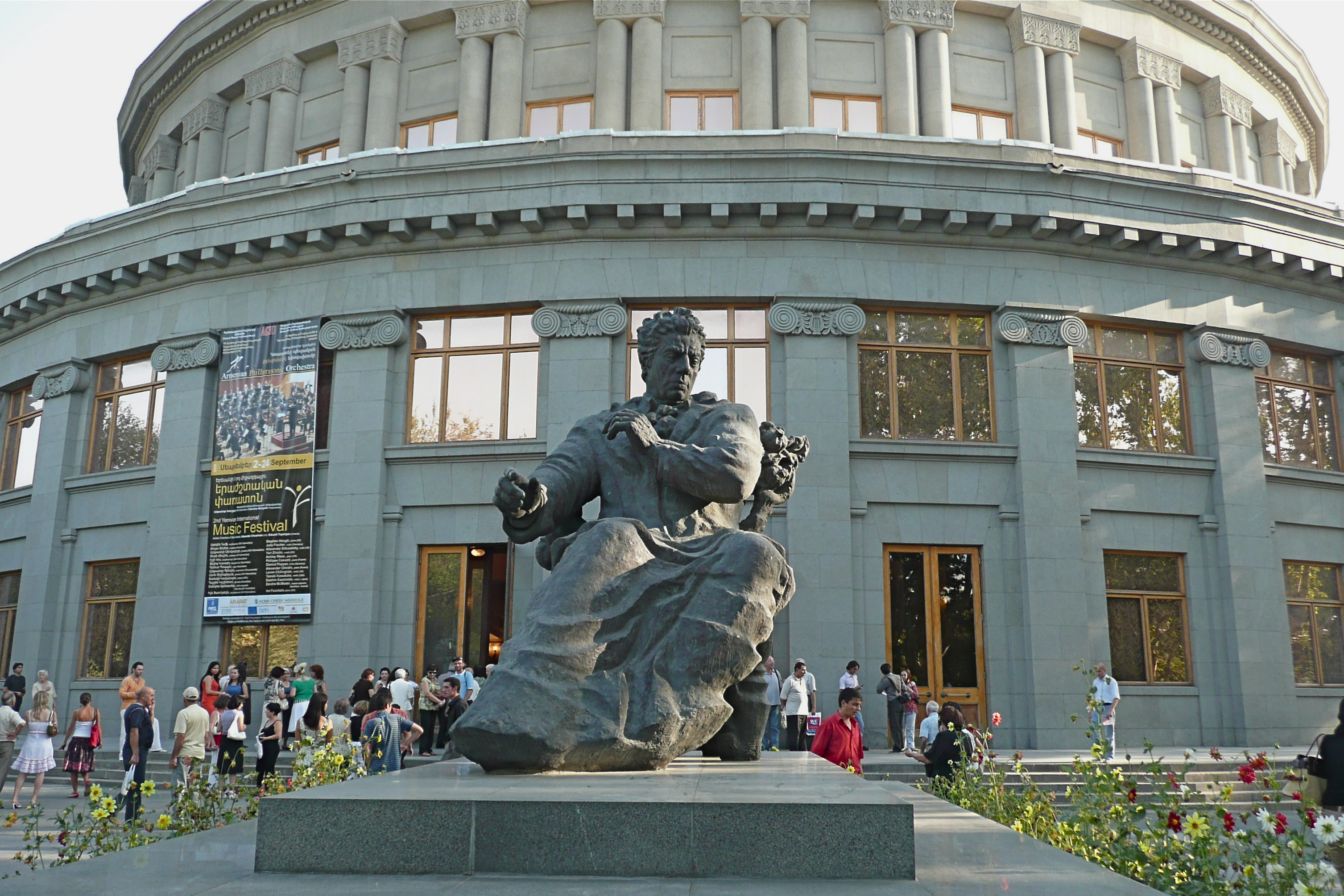 Aram Khachaturian statue in Yerevan in back of the Armenian Opera Theater.